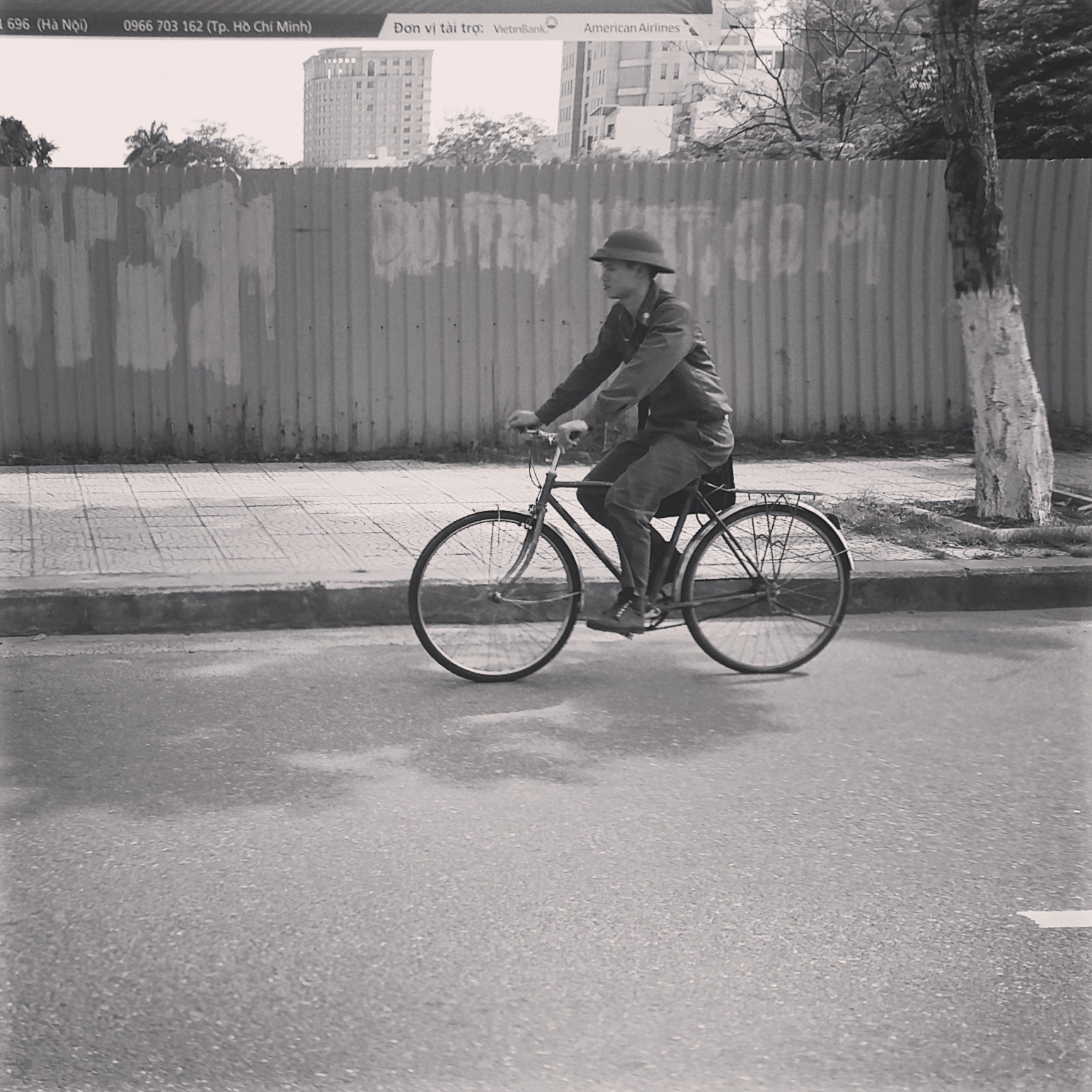 A Vietnamese soldier wearing a pith helmet, 2017